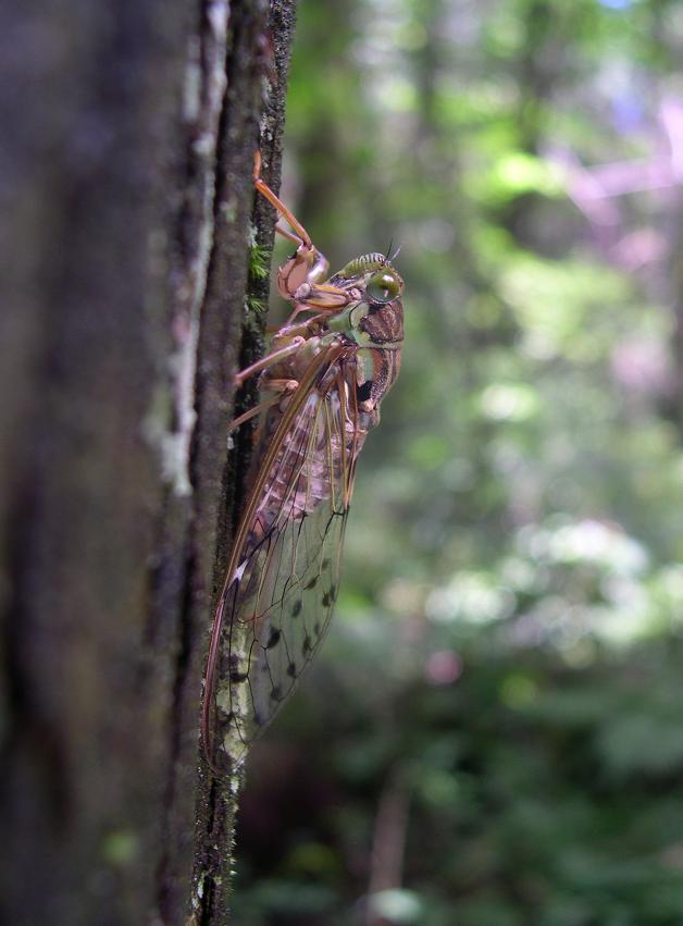 Tanna japonensis (Female)